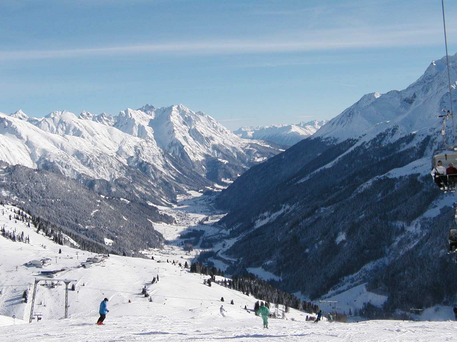 St. Anton am Arlberg as seen from the Galzig slopes